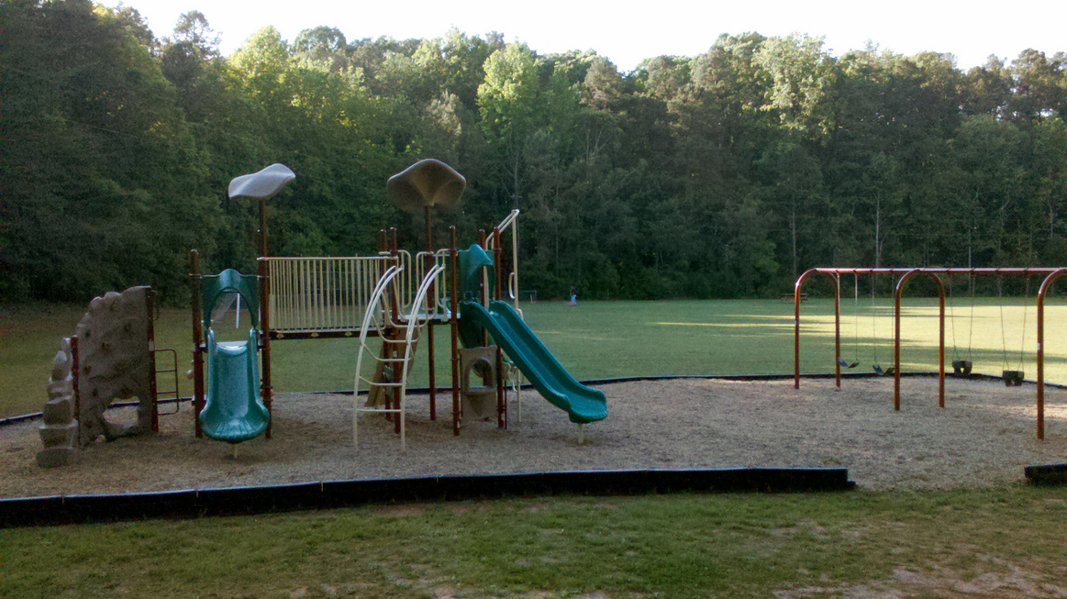 Northwest Park, Chatham County NC, USA, May 2013. Playground.